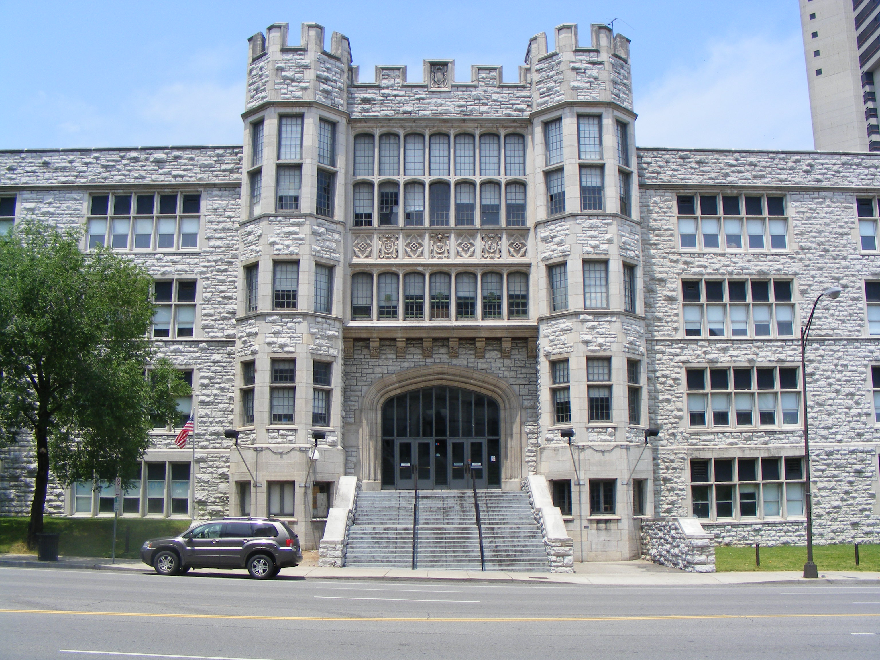 Hume-Fogg High School in Nashville, Tennessee.